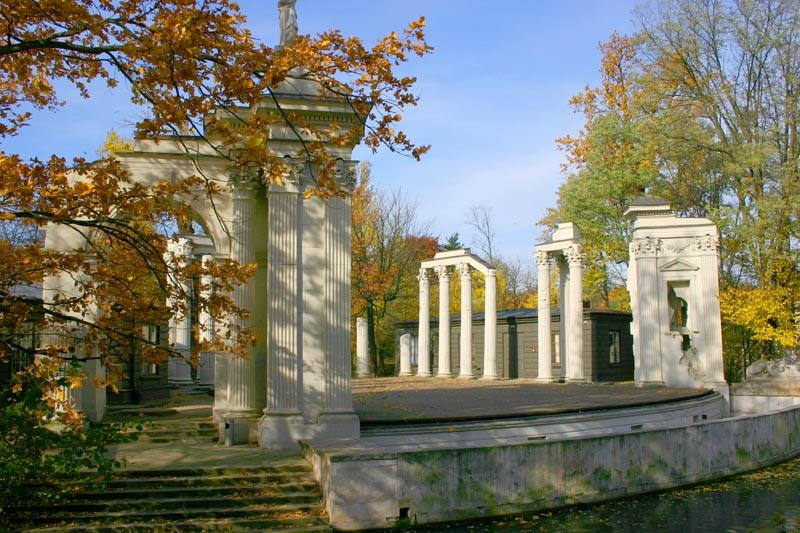 Bialy Domek in Warsaw with the permission of the authers Marek and Ewa Wojciechowscy [1]